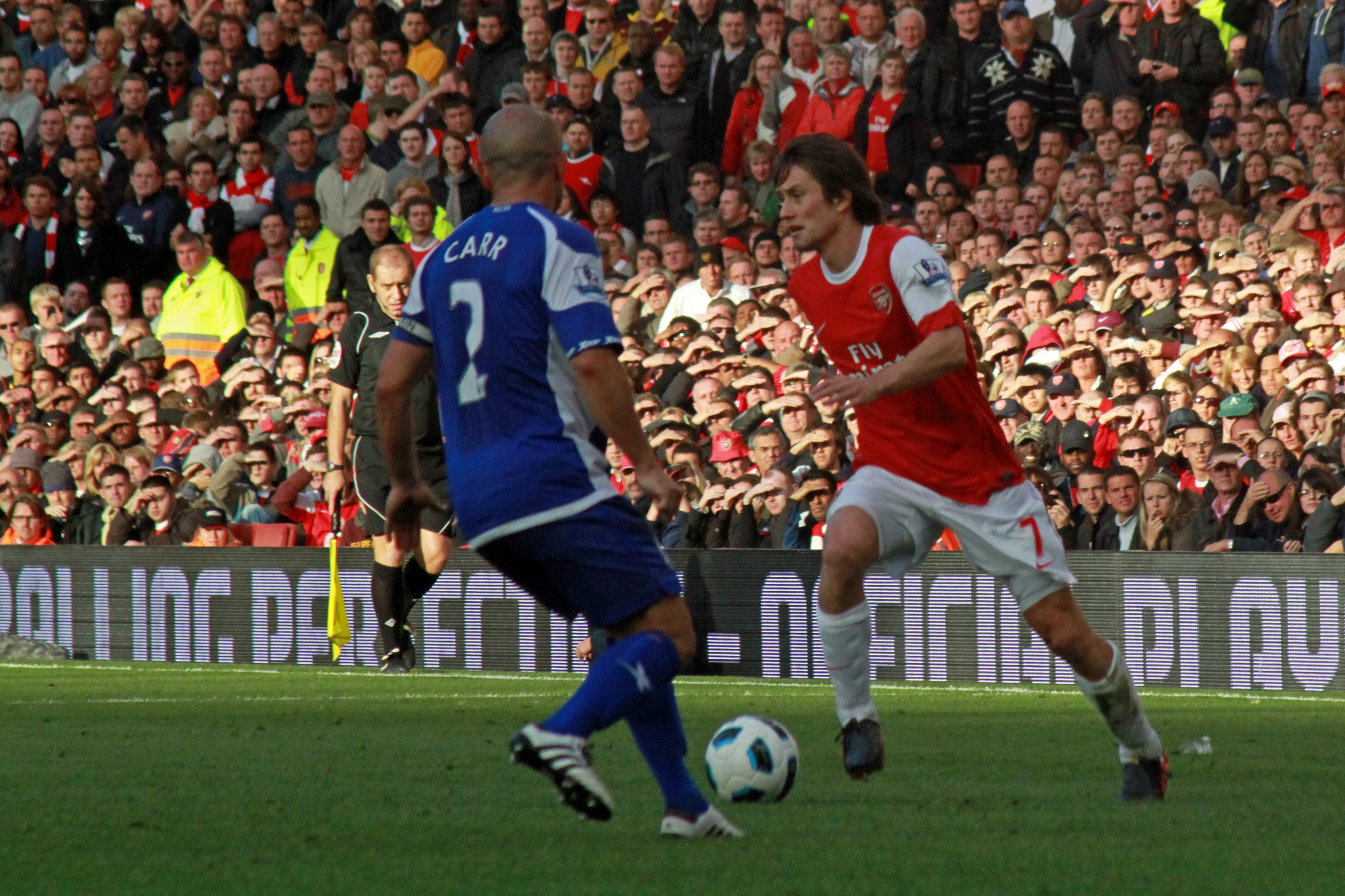 Arsenal v Birmingham City The Emirates 16 October 2010 (2-1)